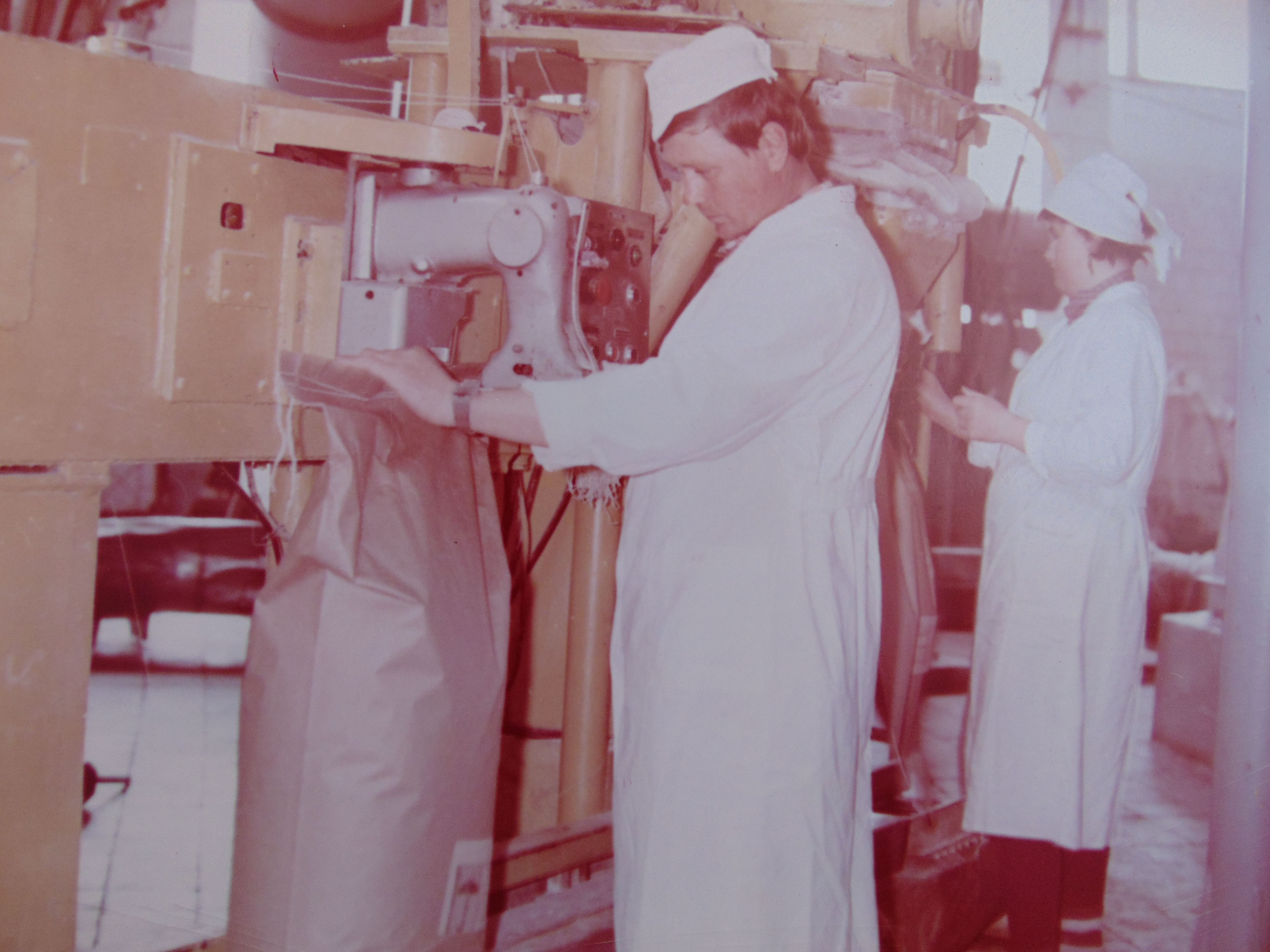 За рахунок вироблення замінника незбираного молока значно знизилися транспортні витрати в колгоспах і радгоспах. В господарствах звільнилось близько 60 автотранспортних одиниць з обслуговуючим персоналом 70 чоловік, котрі стали в нагоді на інших сільськогосподарських роботах